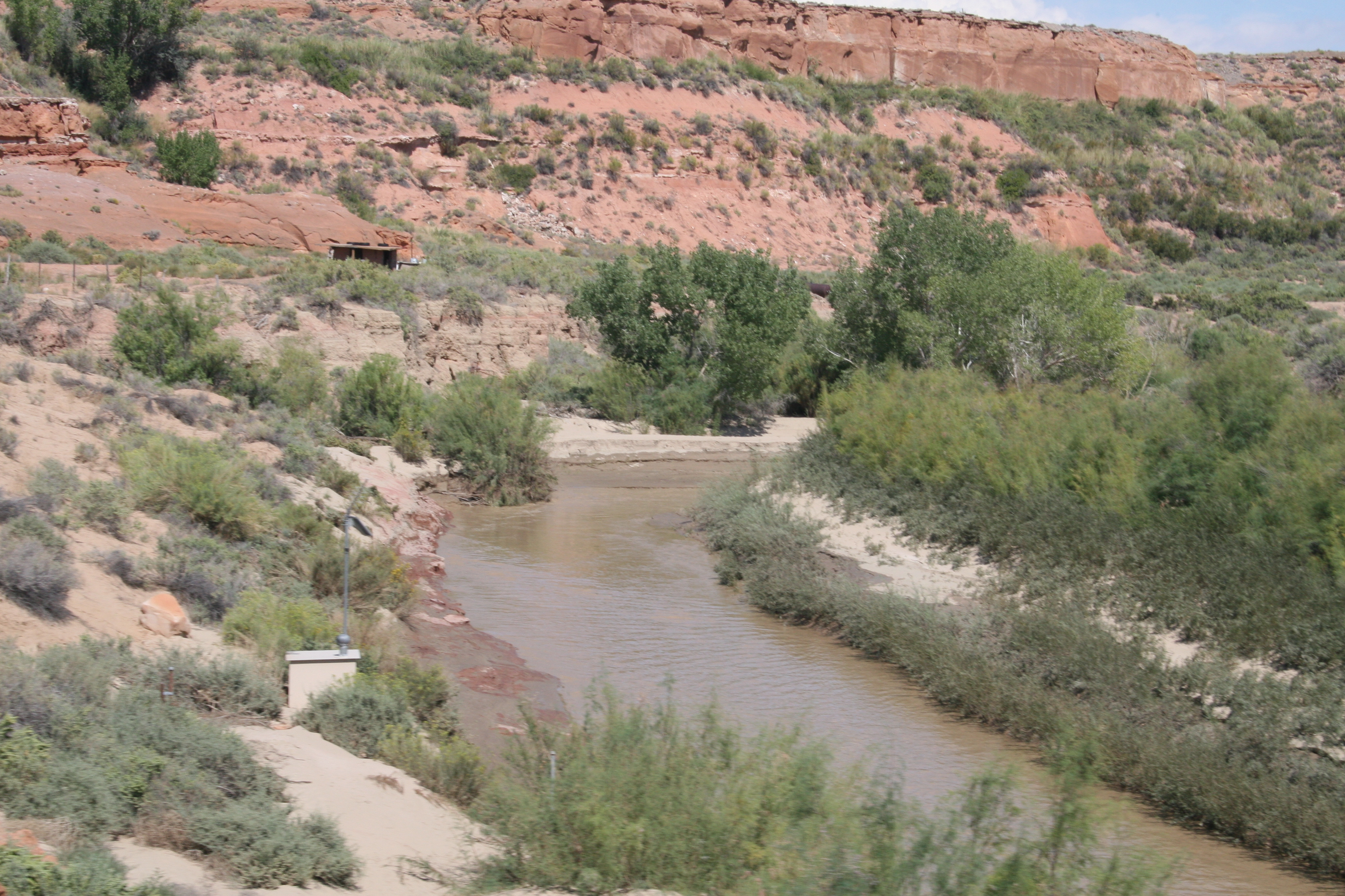 Moenkopi Wash as seen from the bridge of the Arizona SR 264, looking northeast.